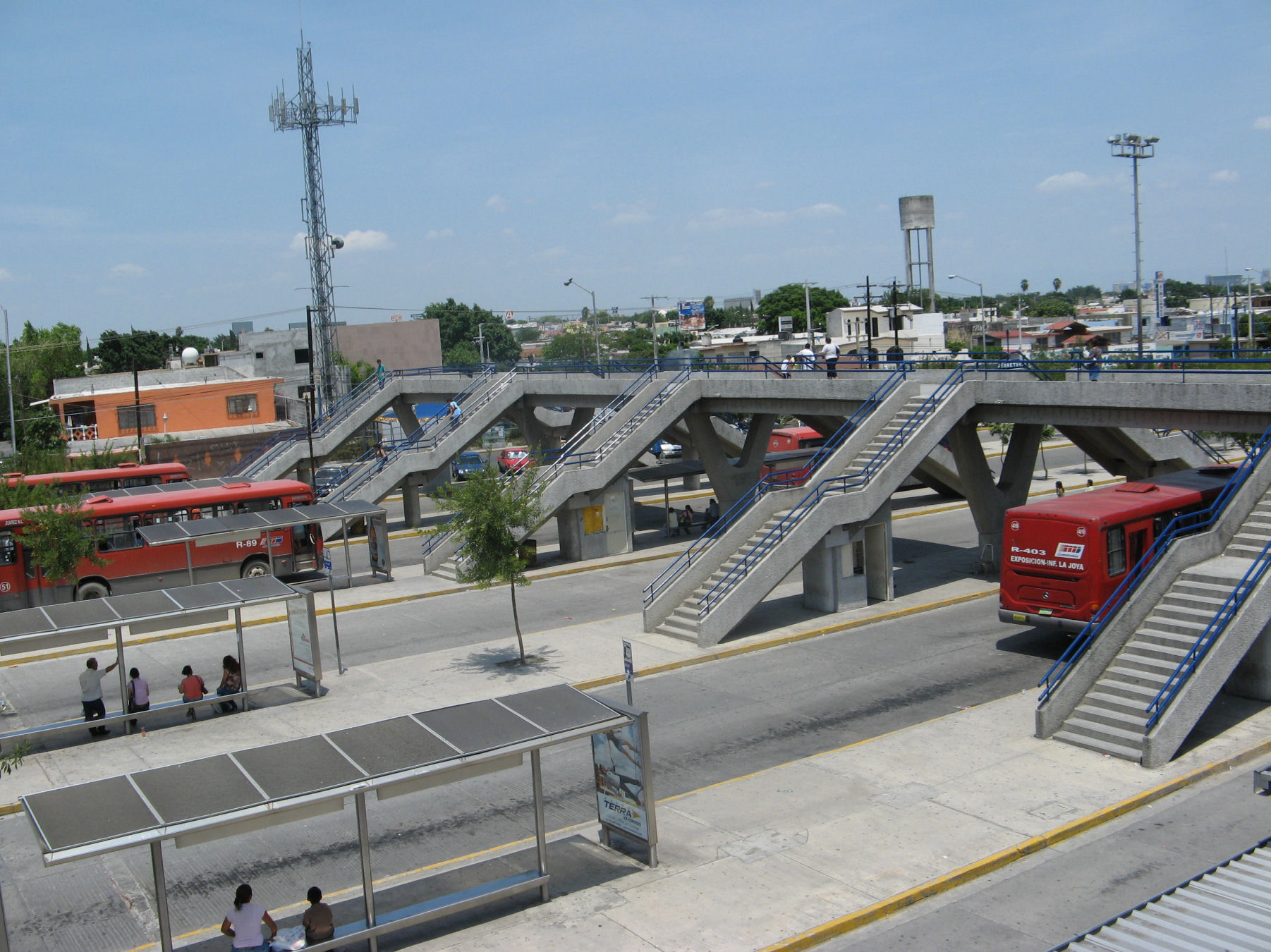 Metrobus stops at Exposición Station - Line 1 of the Monterrey Metro